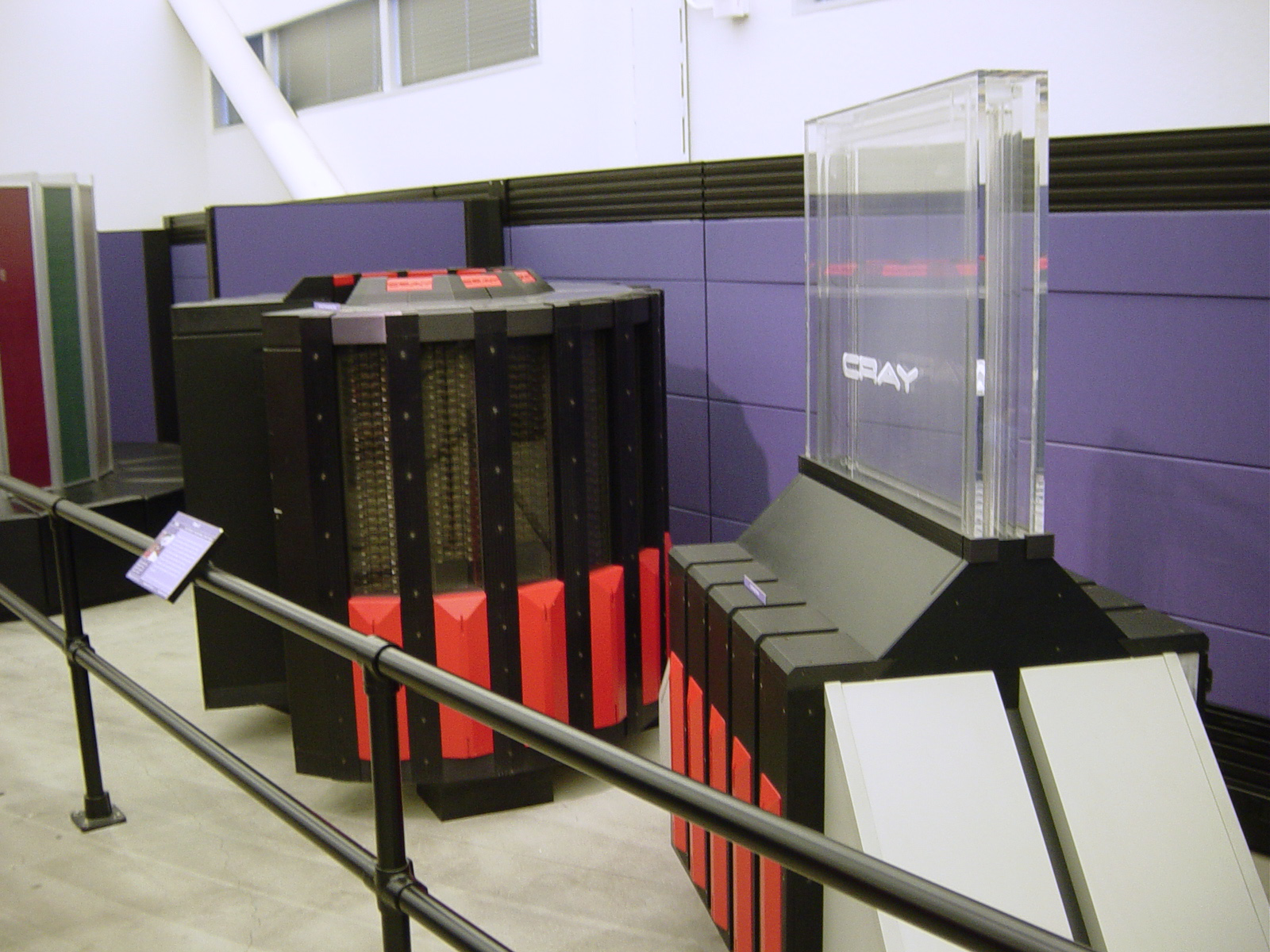 Cray 2 Supercomputer at the Computer History Museum